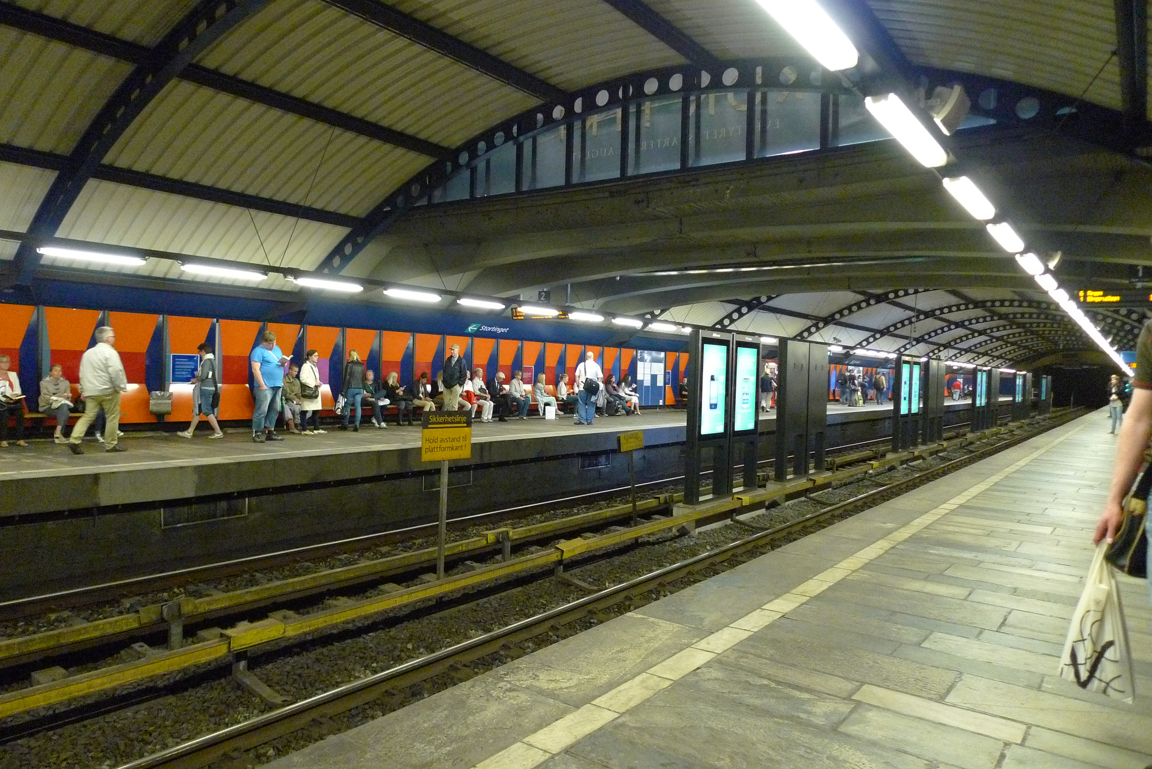 Stortinget Subway Station in Oslo